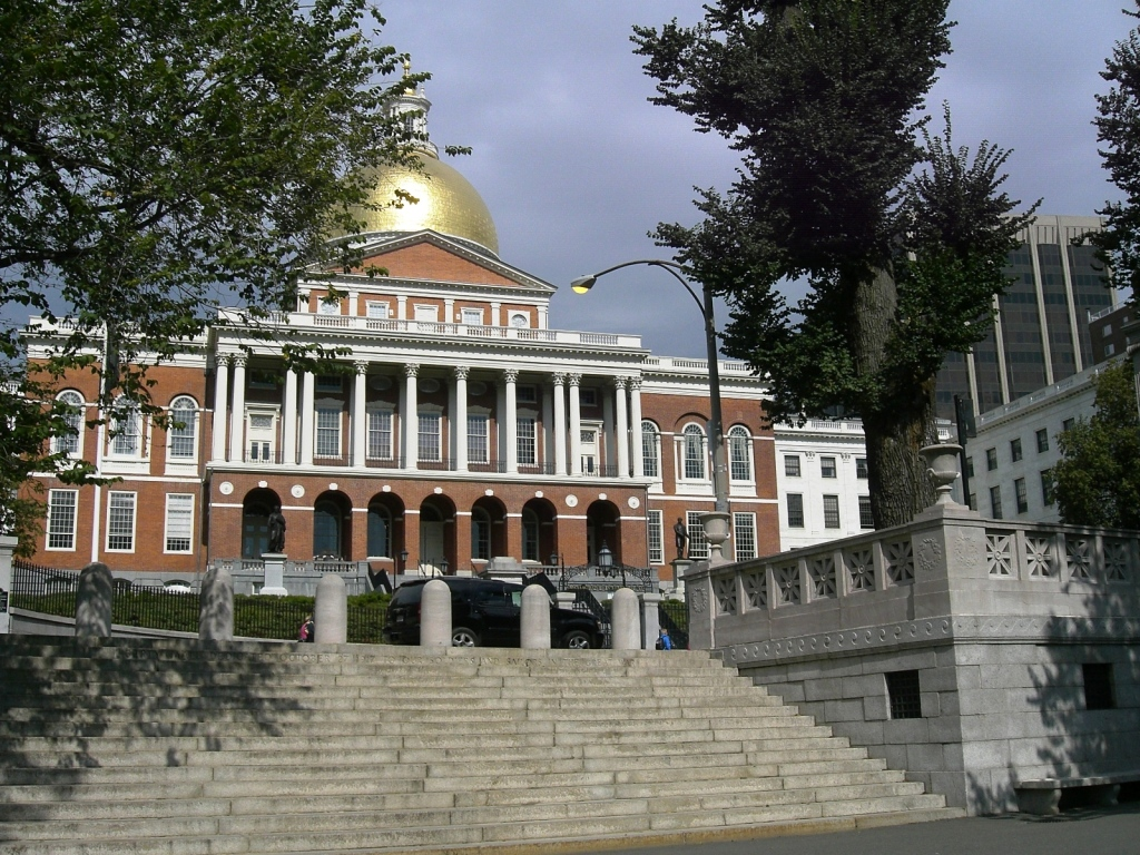 Boston, MA State House from Commons